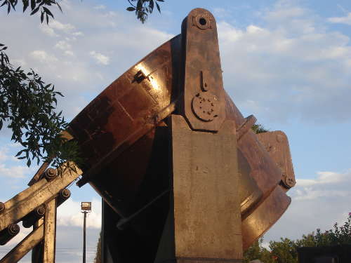 Commemorating Monclova's industrial base. Sculpture in the main plaza, Monclova Mexico. Photo by Mark Stevens, May 2006.